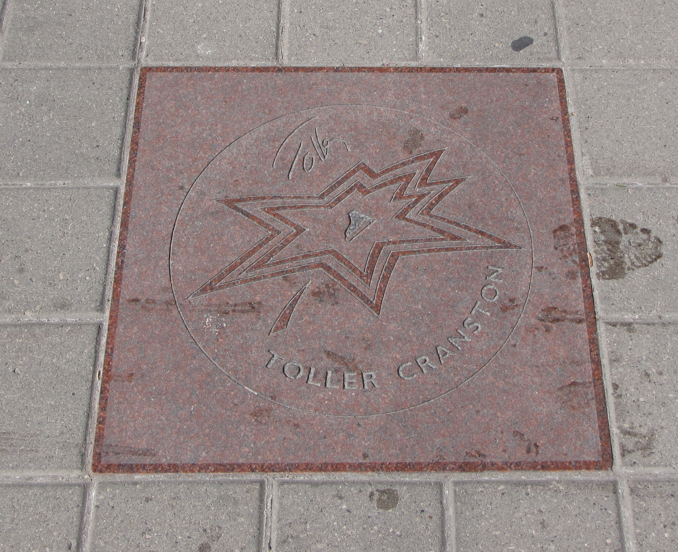 Toller Cranston's star on Canada's Walk of Fame